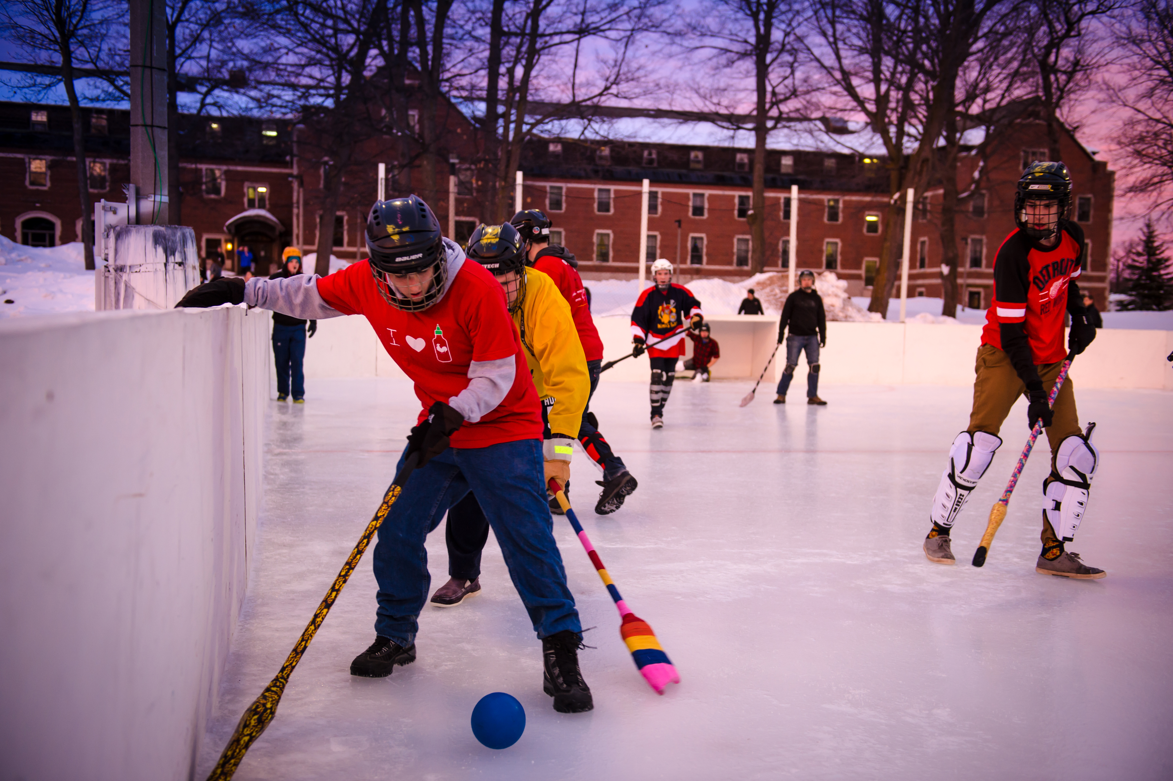 Michigan Tech students playing broomball.